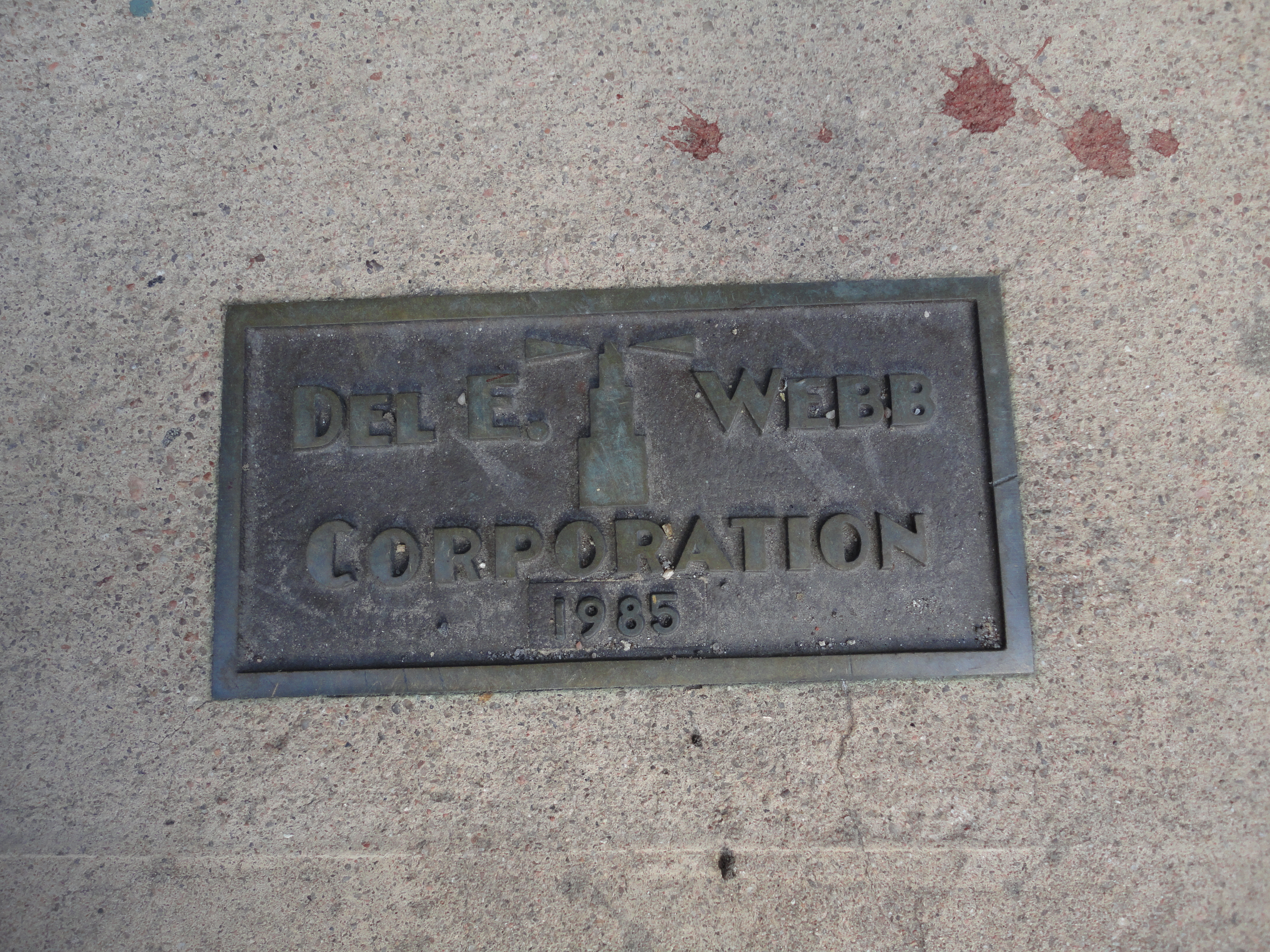 Del E. Webb Corporation 1985